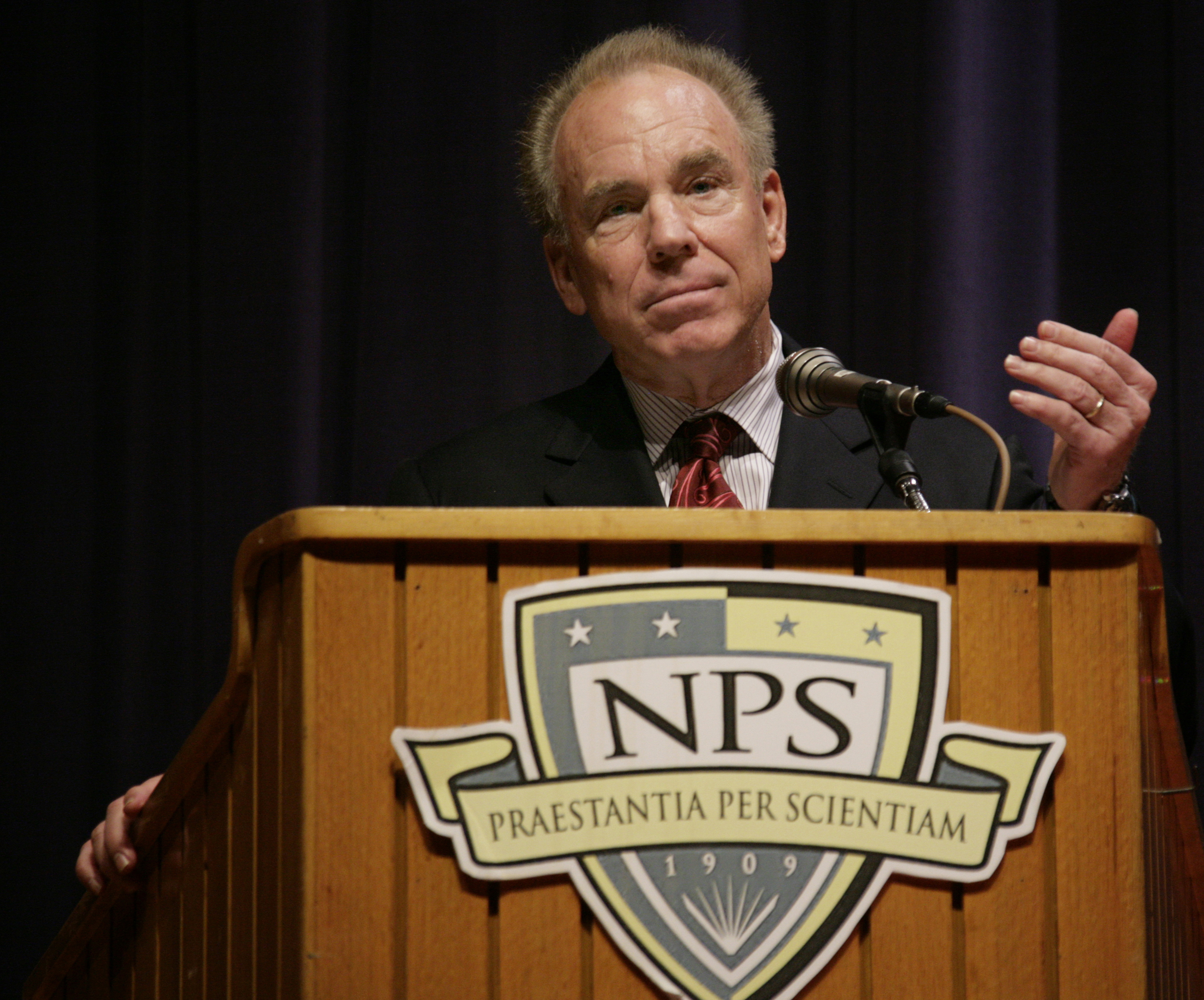 MONTEREY, Calif. (Oct. 5, 2010) Roger Staubach, a former quarterback for the Dallas Cowboys and an NFL Hall of Fame inductee, shares his life experiences and leadership lessons during a the Secretary of the Navy Guest Lecture Series professional lecture at the Naval Postgraduate School. Staubach is a graduate of the U.S. Naval Academy and was awarded the 1963 Heisman Trophy, the last player from a service academy to win the trophy. (U.S. Navy photo by Javier Chagoya/Released)